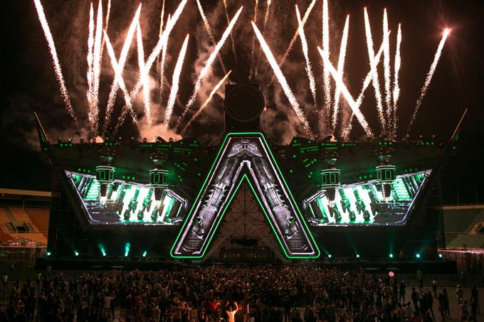 Barbarella 2018